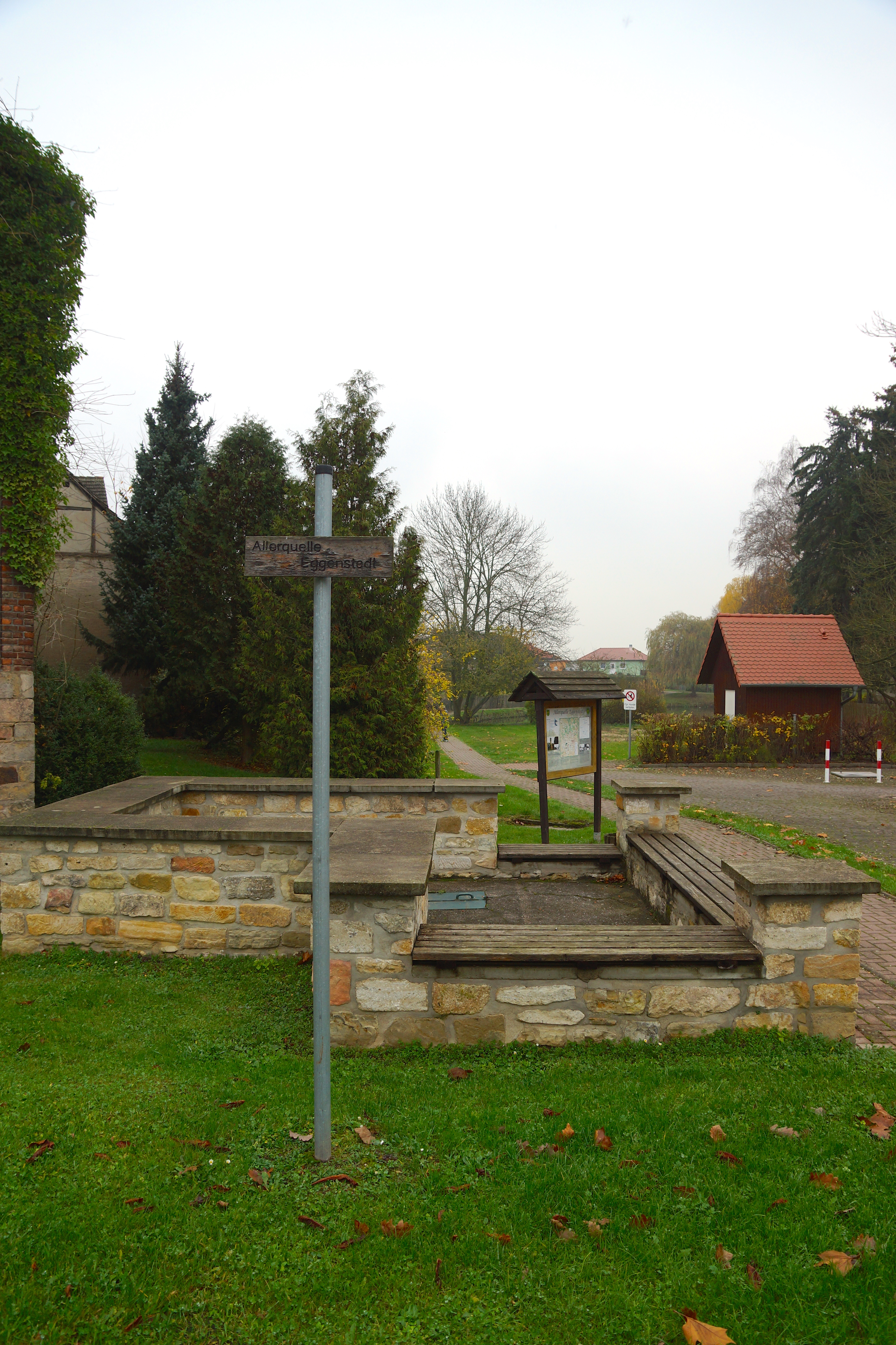 Wanzleben-Börde (Eggenstedt), Germany: Aller Plaque